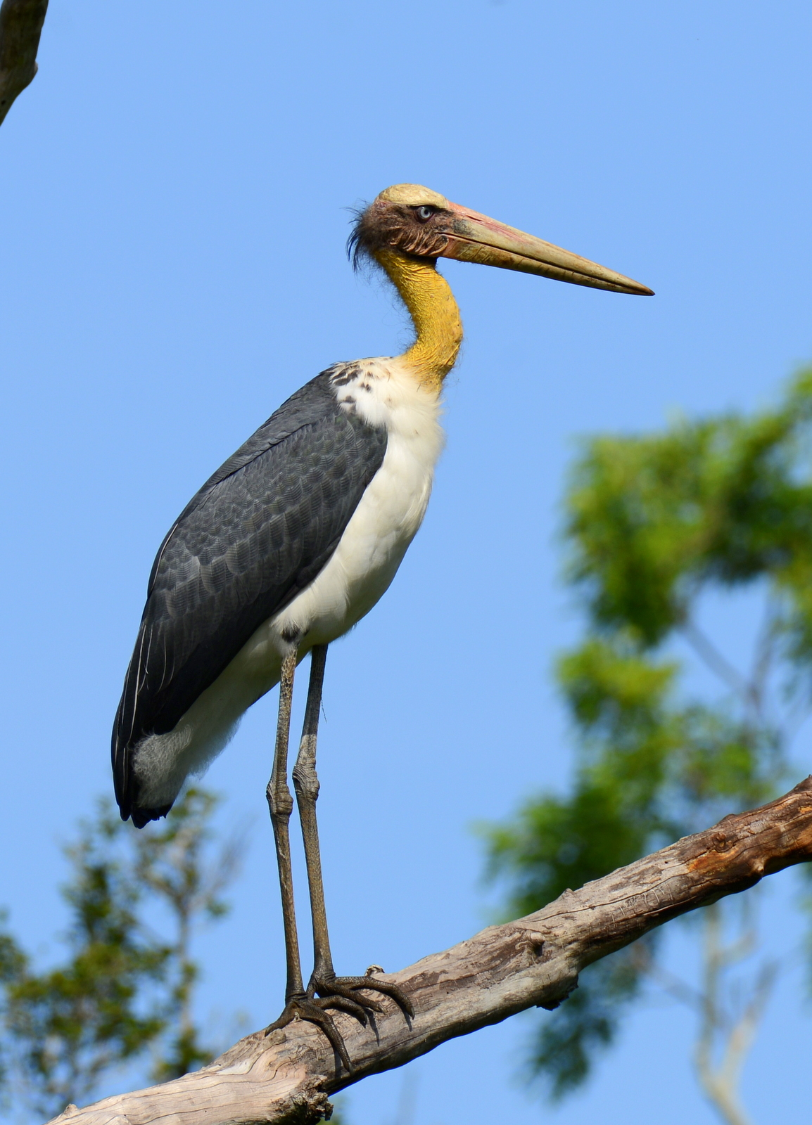 Taken at Yala National Park Block V, Sri Lanka.